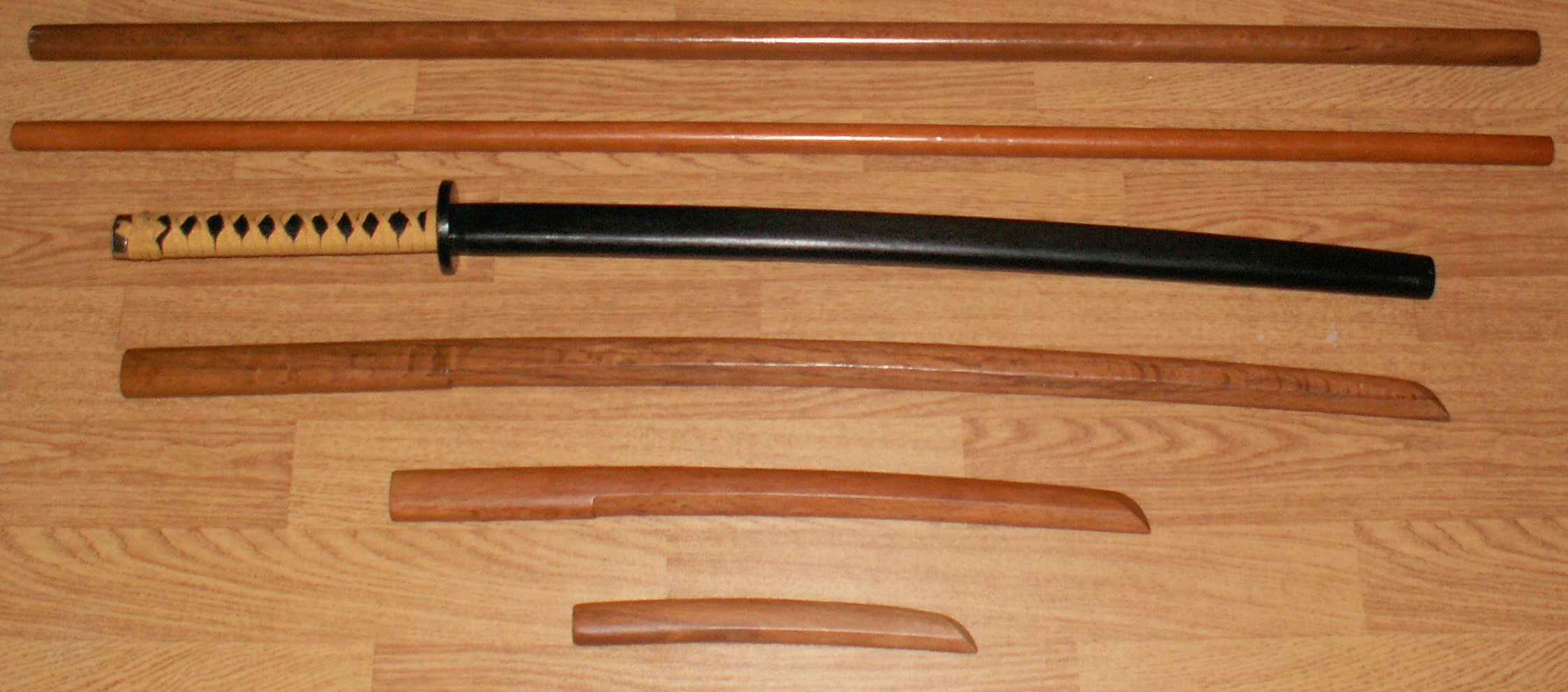 Various weapons used in Aikido